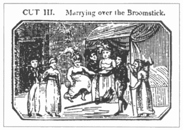 Caricature of a "broomstick-wedding", from a two-penny sheet by James Catnach, The Marriage Act Displayed in Cuts and Verse, London, 1822. The publication satirizes the proposed Marriage Act (known as the "Broomstick Marriage Act", "broomstick marriage" being a term for "sham marriage"). Outhwaite (1995) associates this term with the "effloresence of unregistered consensual unions" among the English and Welsh working class in the second half of the 18th century, citing a 1753 pamphlet mentioning "the Ceremonial of jumping over a Stick", and noting "Cathnach's illustrated twopenny-sheets of the 1820s carried charming drawings of broomstick weddings". R. B. Outhwaite, Clandestine Marriage in England, 1500-1850, A&C Black, 1995, 139f.